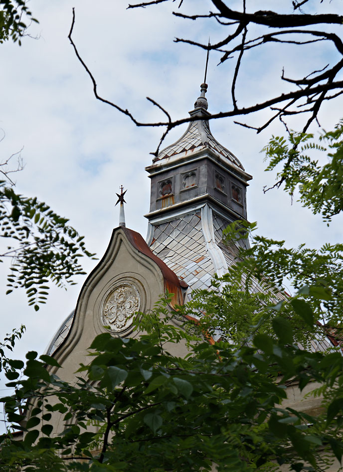 Old villa in the Kamaraš main street, in Horgoš, Serbia